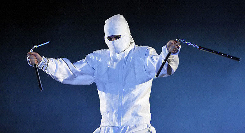 Ninja6